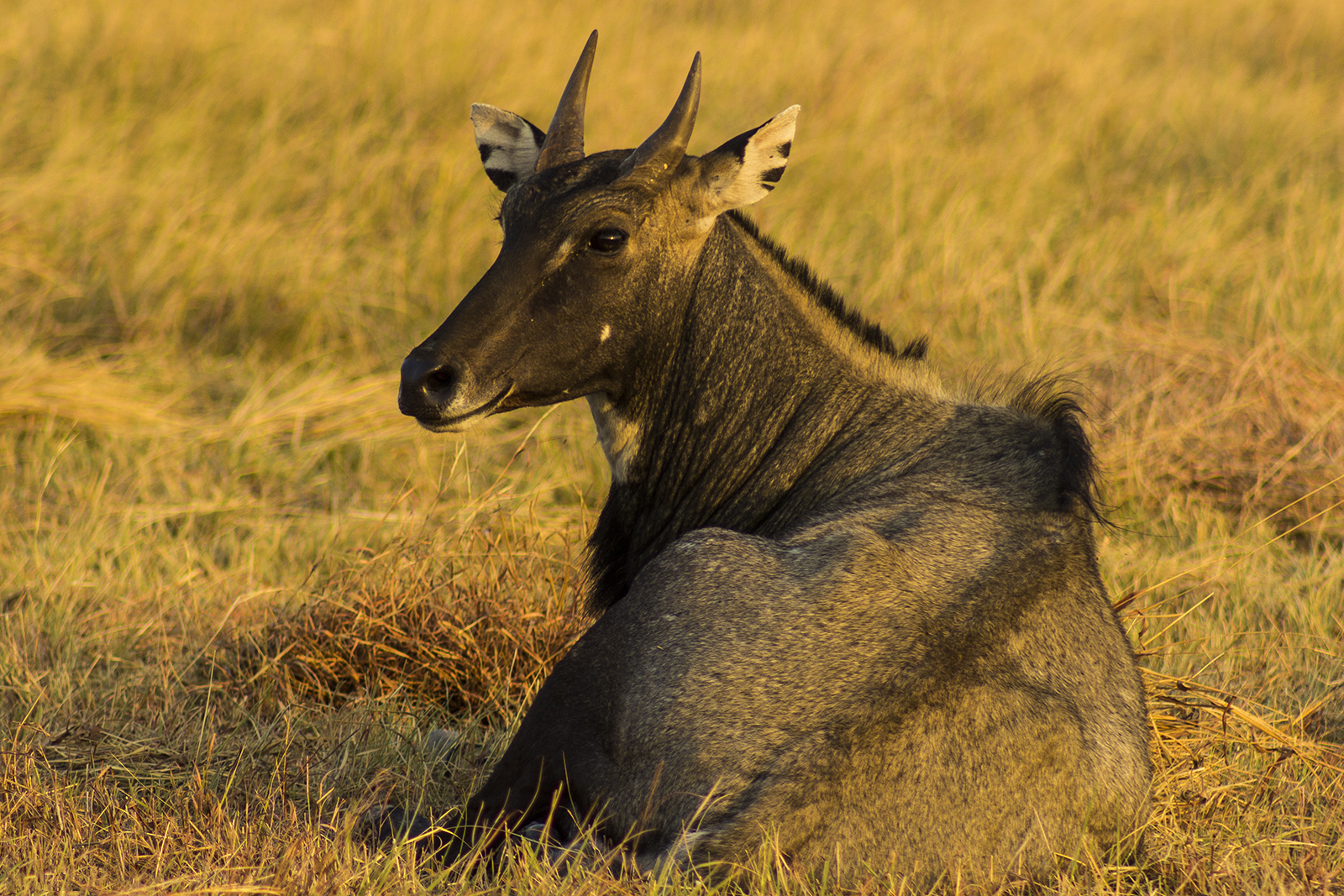 Male Nilgai resting in grassy land at Velavadar National Park